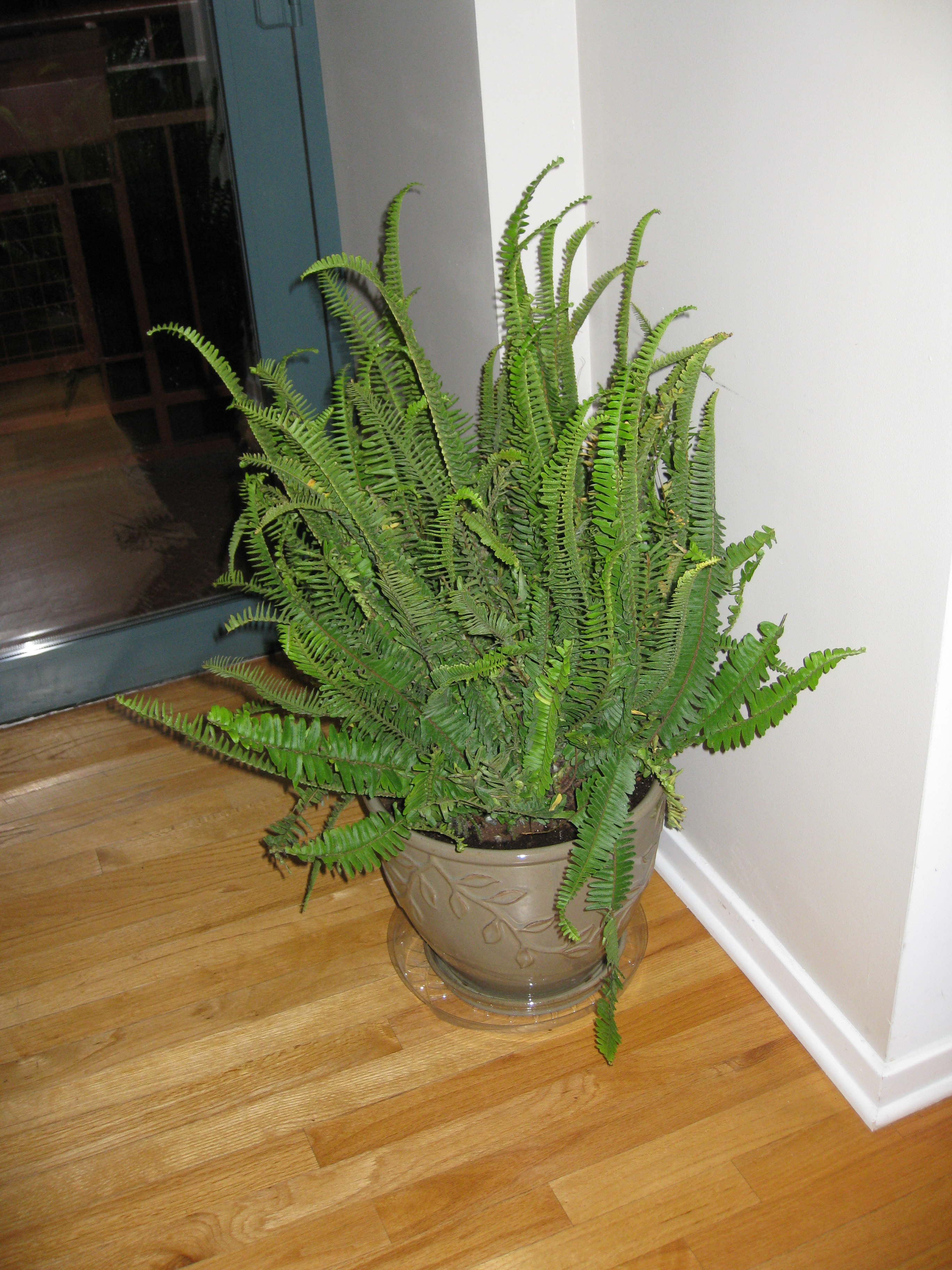 Potted Kimberly Queen Fern (Nephrolepis obliterate).